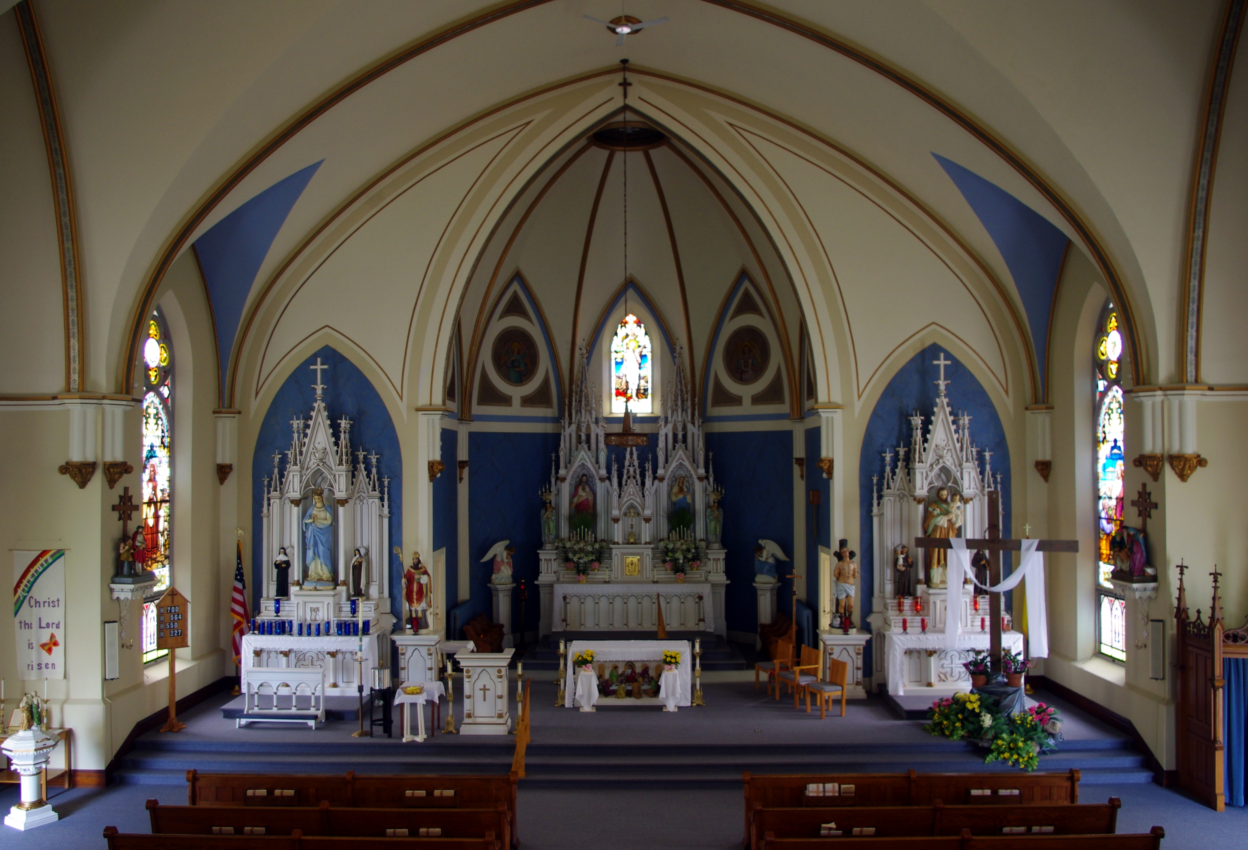 St. Sebastian Catholic Church in St. Sebastian, Ohio photo of the nave from the choir loft